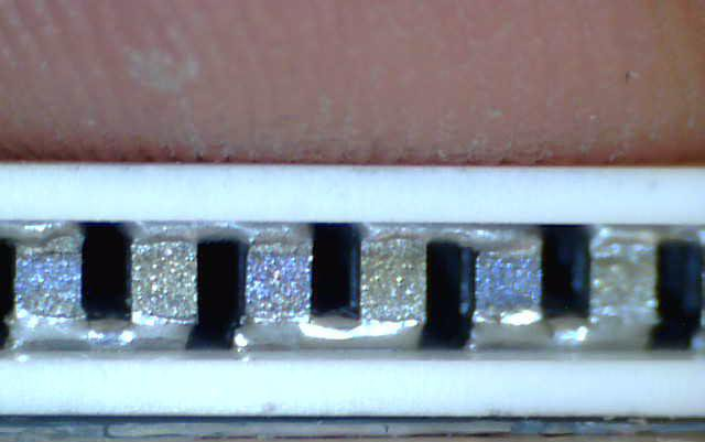 A close-up view of a peltier element with 4.7 mm thickness. The friction ridges of a finger can be seen, which can be used for size comparison.